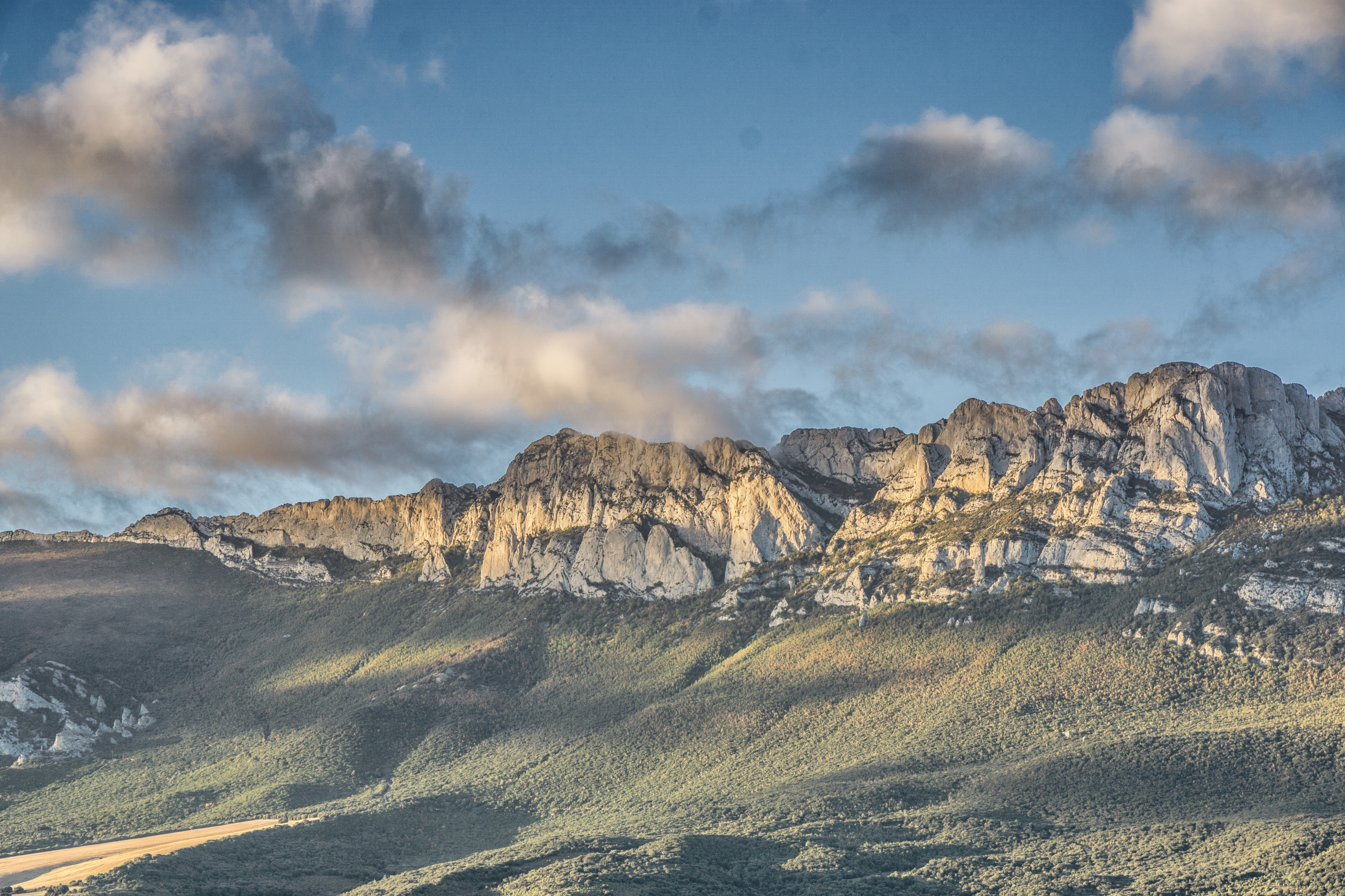 The mountains to the north from the bell tower